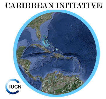 Caribbean Initiative's logo